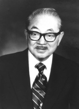 S. I. Hayakawa, former U.S Senator and general semanticist